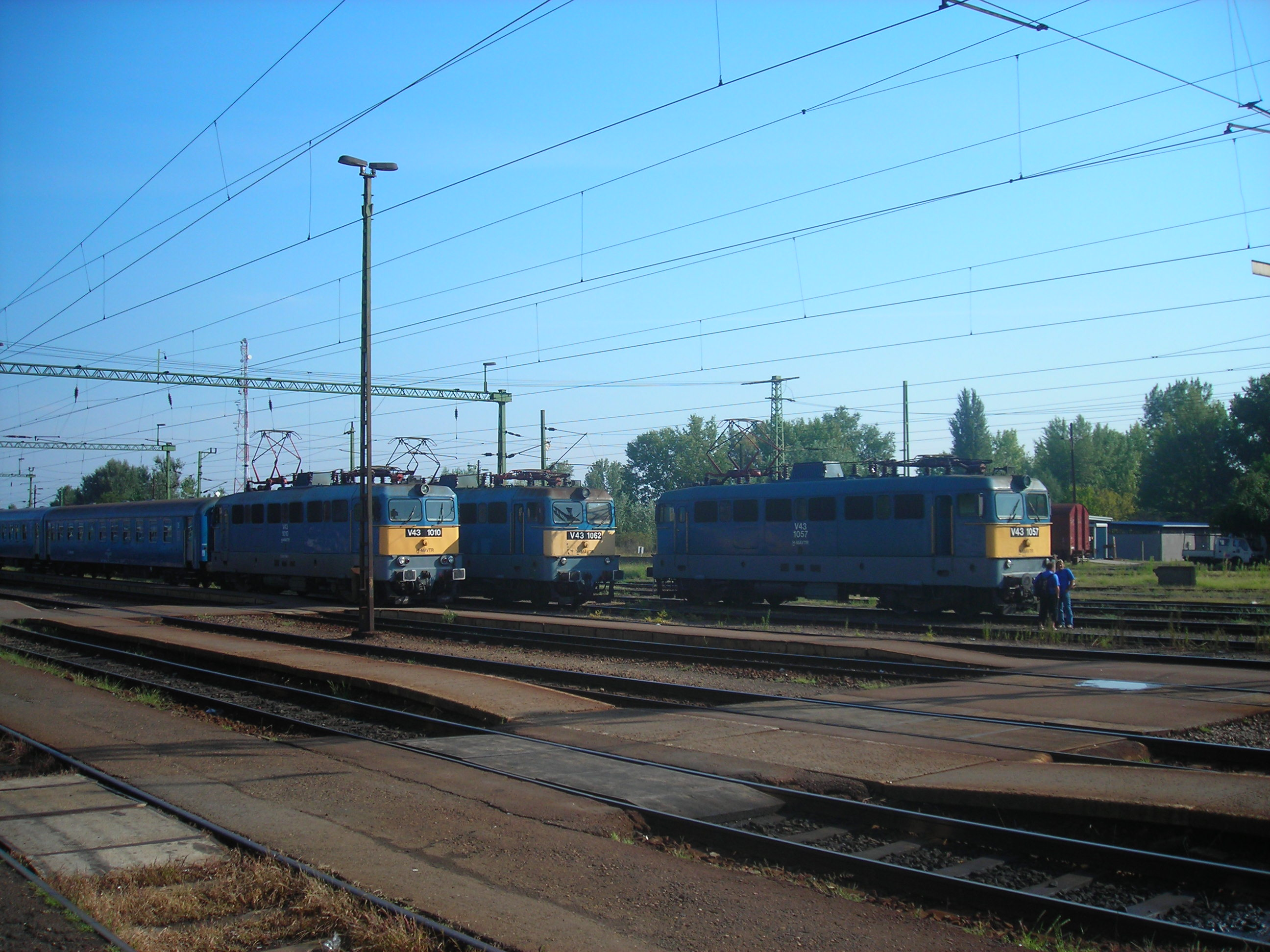 MÁV class V43 in Kiskunhalas railway station